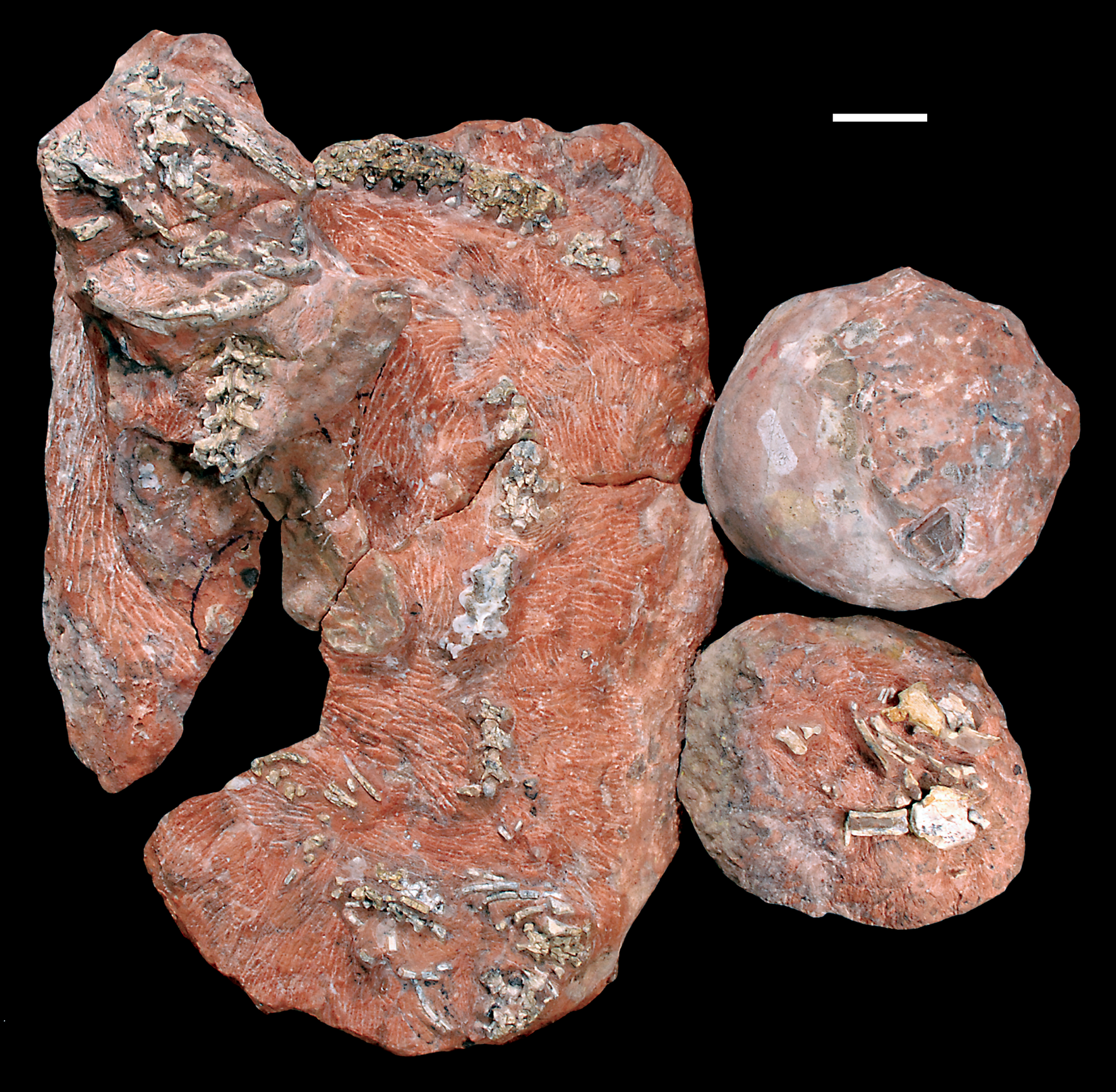 Fossil snake (Sanajeh indicus) preserved within a sauropod dinosaur nesting ground. Photograph of blocks collected at Dholi Dungri, India preserving the snake Sanajeh indicus, in association with a partial clutch of three titanosaur eggs (oogenus Megaloolithus) and a titanosaur hatchling (GSI/GC/2901–2906). Beginning from the center of the lower portion of the photograph, the articulated skeleton of Sanajeh is coiled in a clockwise fashion around a crushed Megaloolithus egg (egg 3, at the junction of three blocks), with its skull resting on the topmost loop of the coil. The uncrushed Megaloolithus egg (egg 1) at right pertains to the same clutch, which would have contained six to 12 eggs. A second uncrushed Megaloolithus egg (egg 2) from the same clutch is still at the site. At lower right are the front quarters of a titanosaur hatchling, including elements of the thorax, shoulder girdle, and forelimb preserved in anatomical articulation. The titanosaur hatchling was approximately 0.5 m long, or one-seventh the length of Sanajeh (3.5 m long). No other sauropod bones were found at the site. Scale bar equals 5 cm.